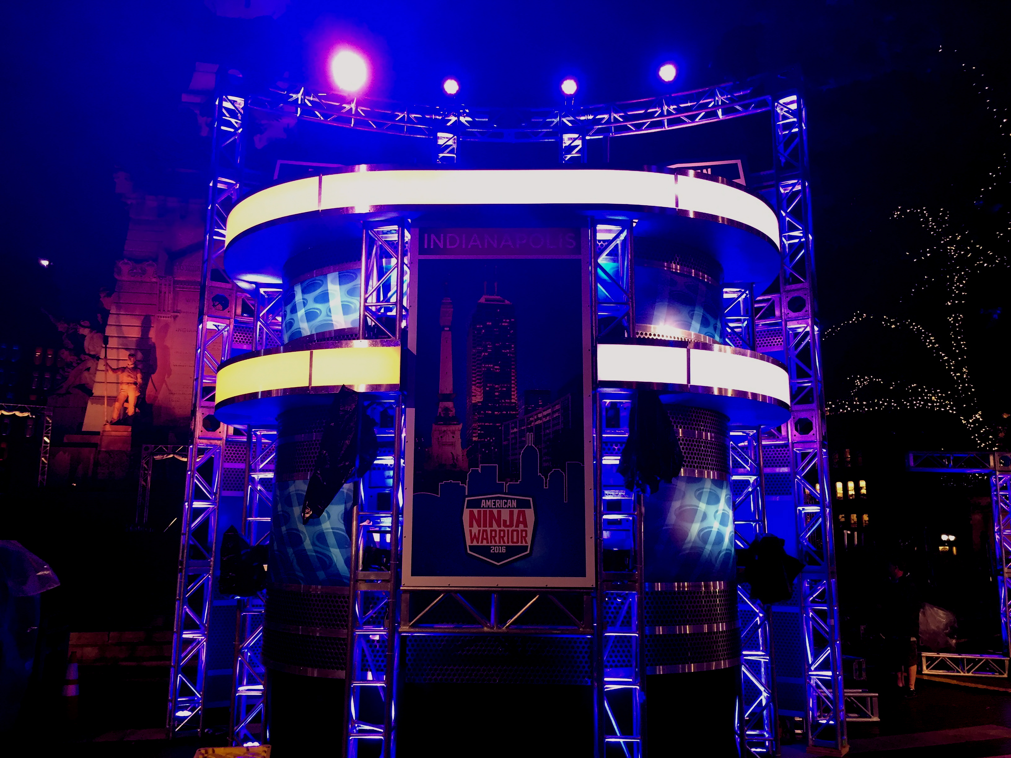 The broadcaster position, where hosts Matt Iseman and Akbar Gbaja-Biamila narrate and commentate on athletes' runs, here seen set up for the Indianapolis City Qualifier and City Finals competitions during American Ninja Warrior season 8. Some of Monument Circle can be seen in the background.